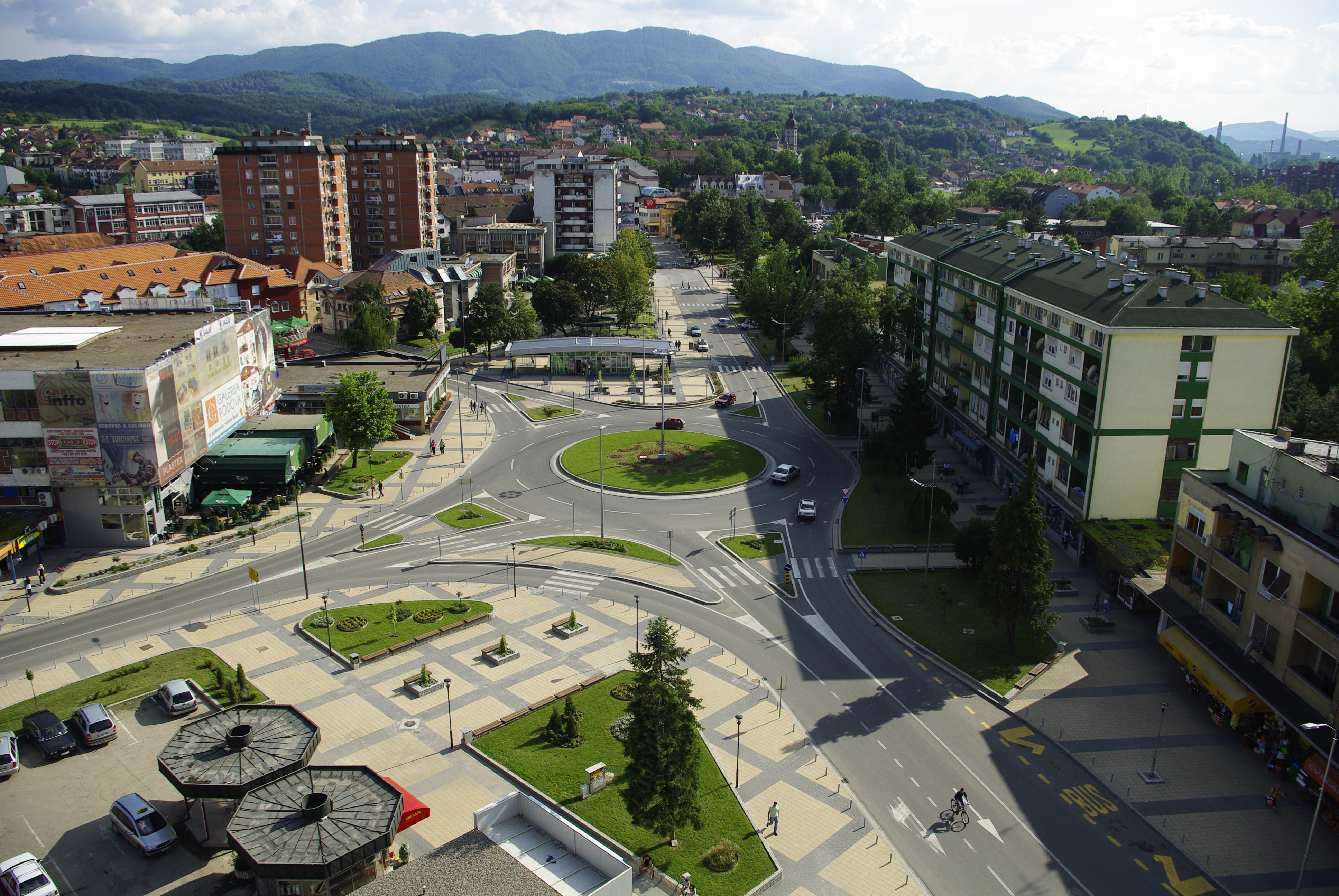 Trg Vuka Karadjica, Loznica, Srbija.